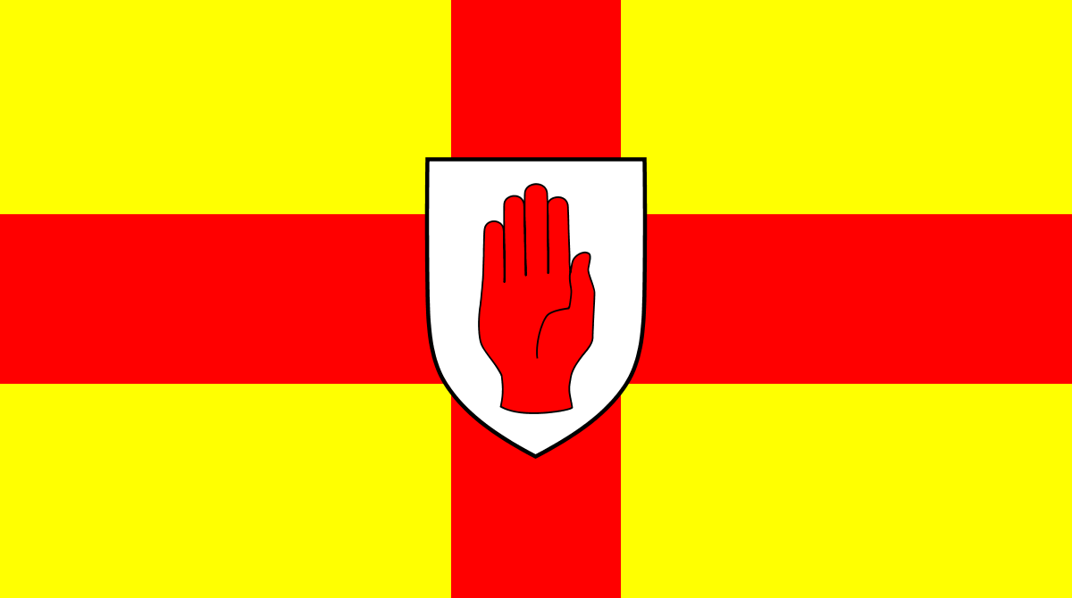 Flag of Ulster